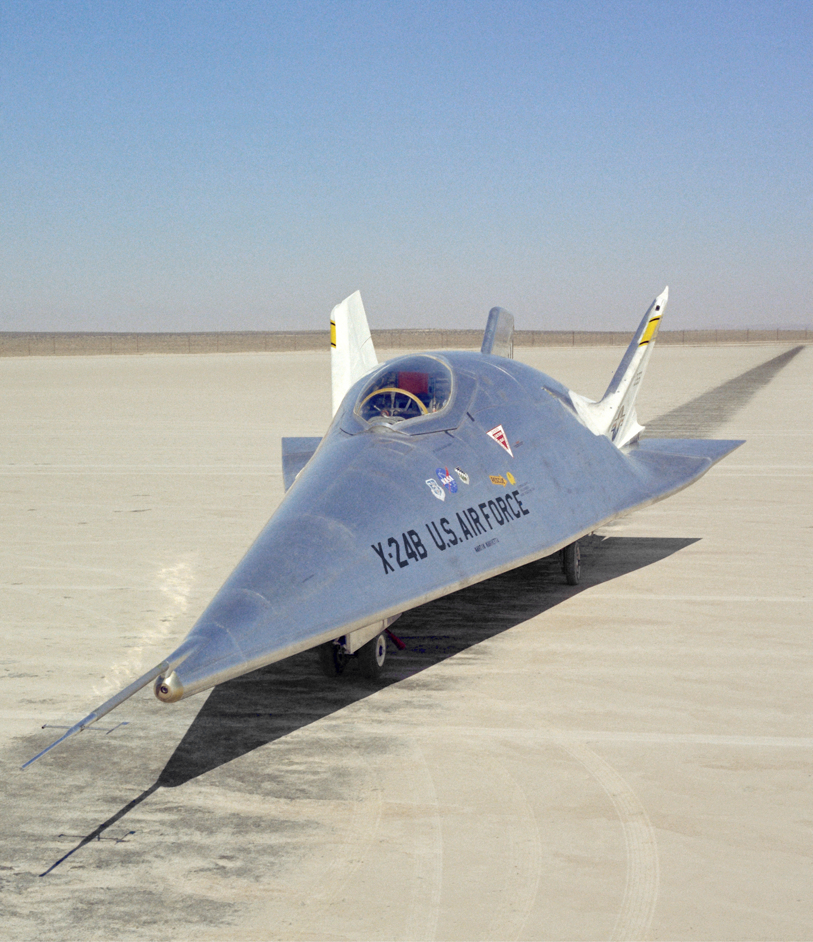 The X-24B is seen here on the lakebed at the NASA Dryden Flight Research Center, Edwards, California. The X-24B was the last aircraft to fly in Dryden's Lifting Body program. Lifting bodies were wingless vehicles designed to fly back to Earth from space and be landed like an aircraft at a pre-determined site. First to fly the X-24B was John Manke, conducting a glide flight on August 1, 1973. He was also the pilot on the first powered mission on November 15, 1973. Among the final flights with the X-24B were two precise landings on the main concrete runway at Edwards which showed that accurate unpowered reentry vehicle landings were operationally feasible. These missions were flown by Manke and Air Force Maj. Mike Love, and represented the final milestone in a program that helped write the flight plan for today's Space Shuttle program. The final powered flight with the X-24B was on September 23, l975. The pilot was Bill Dana, and it was also the last rocket-powered flight flown at Dryden. It was Dana who also flew the last X-15 mission about seven years earlier. Top speed reached with the X-24B was l,l64 mph (Mach l.76) by Love. The highest altitude reached was 74,100 feet, by Manke. The information the lifting body program generated contributed to the data base that led to development of today's Space Shuttle program. The X-24B is on public display at the Air Force Museum, Wright-Patterson AFB, Ohio.